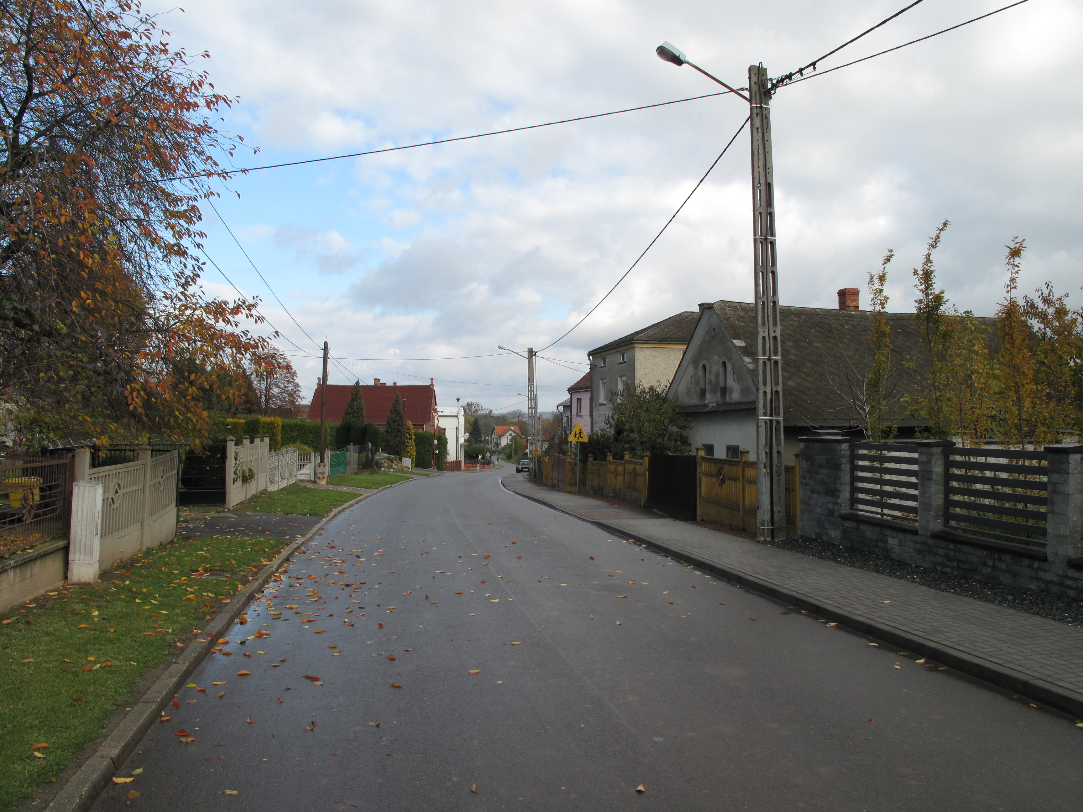 Bolesław. Racibórz County, Poland.